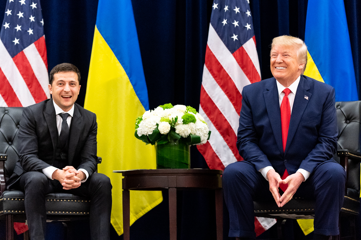 President Donald J. Trump participates in a bilateral meeting with Ukraine President Volodymyr Zalensky Wednesday, Sept. 25, 2019, at the InterContinental New York Barclay in New York City. (Official White House Photo by Shealah Craighead)